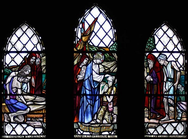 Dunblane Cathedral - this window is NOT by Louis Davis it is by Douglas Strachan